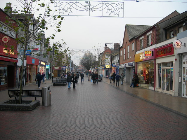 Gillingham High Street (2)